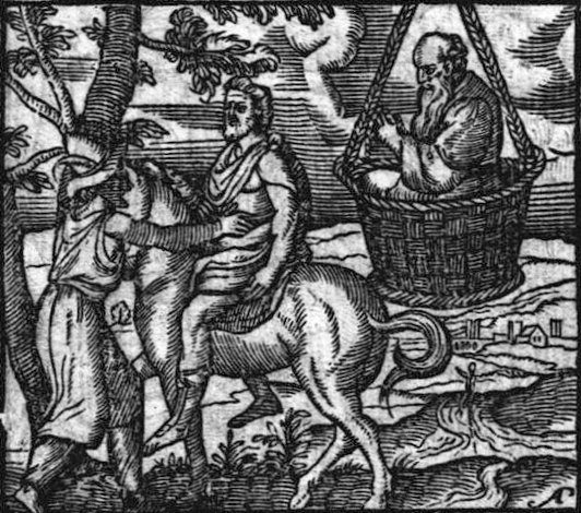 Strepsiades and Pheidippides are discussing, Socrates is hanging in the air in a basket. Scene from Aristophanes's comedy Clouds.